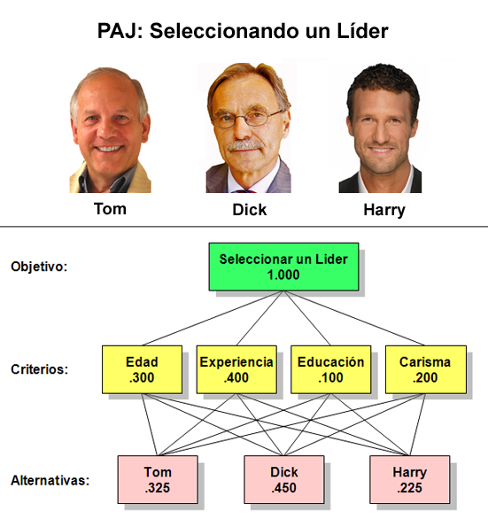 Illustration for Analytic Hierarchy Process article